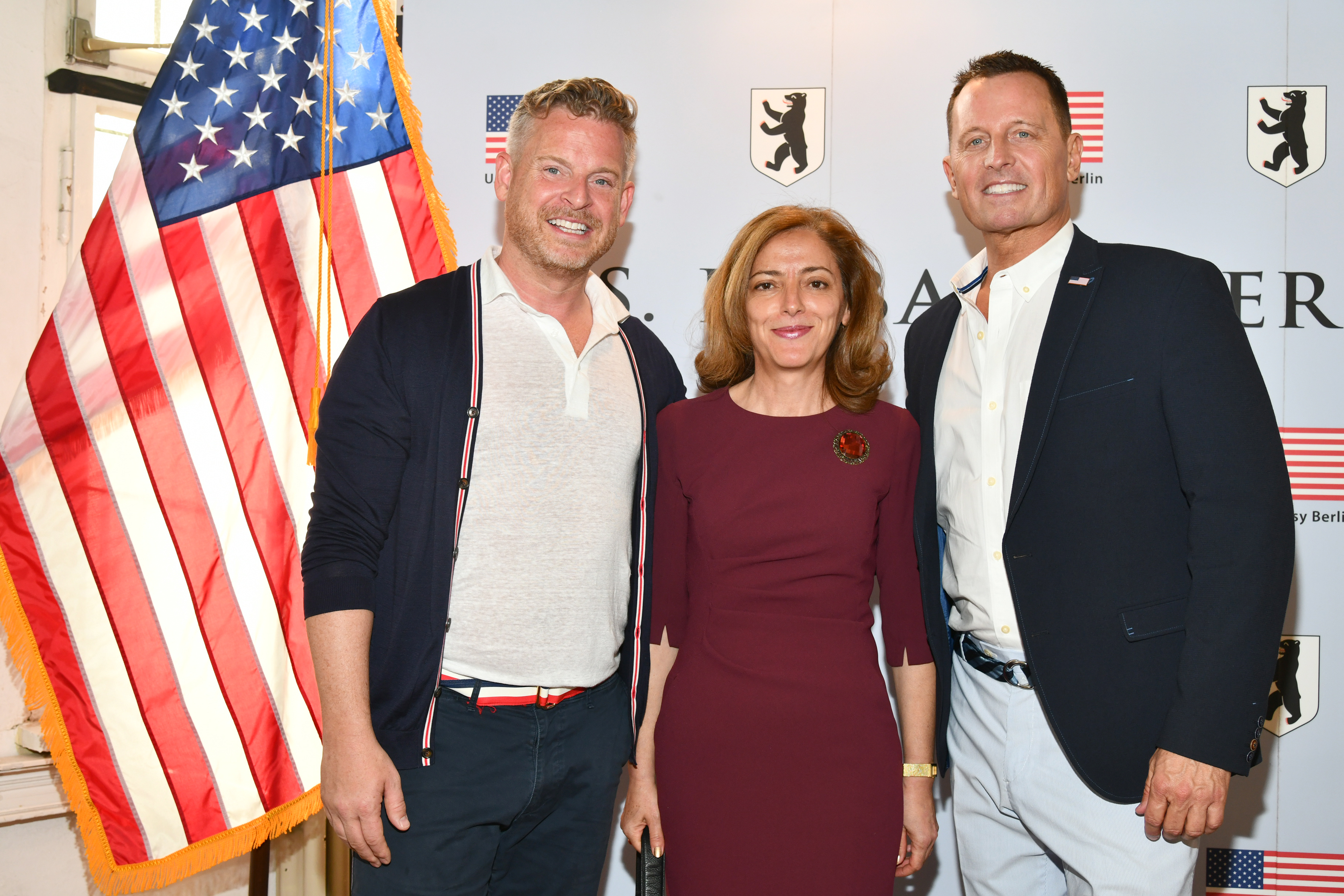 Matt Lashey, Elena Radkova Shekerletova, and Richard Grenell, 4th of July 2019 in Berlin